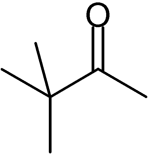 Chemical structure of Pinacolone